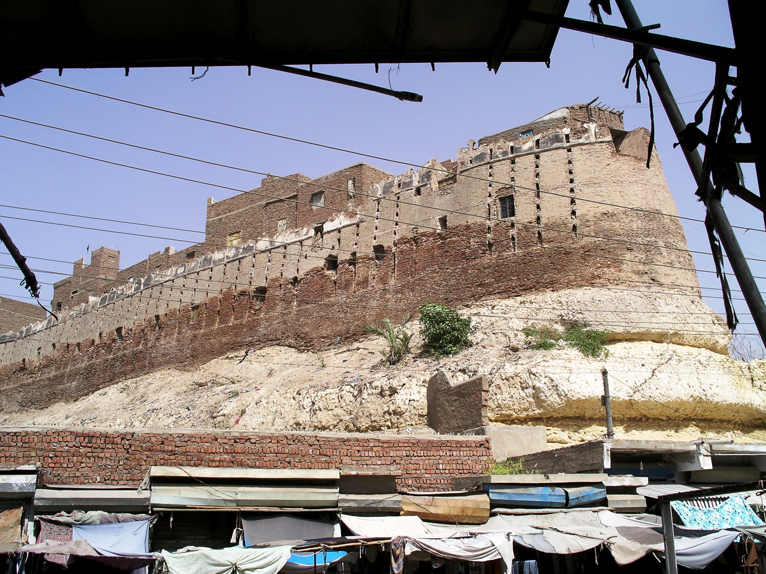 Hyderabad Fort (Pacco Qillo) This is a photo of a monument in Pakistan identified as the SD-P-4